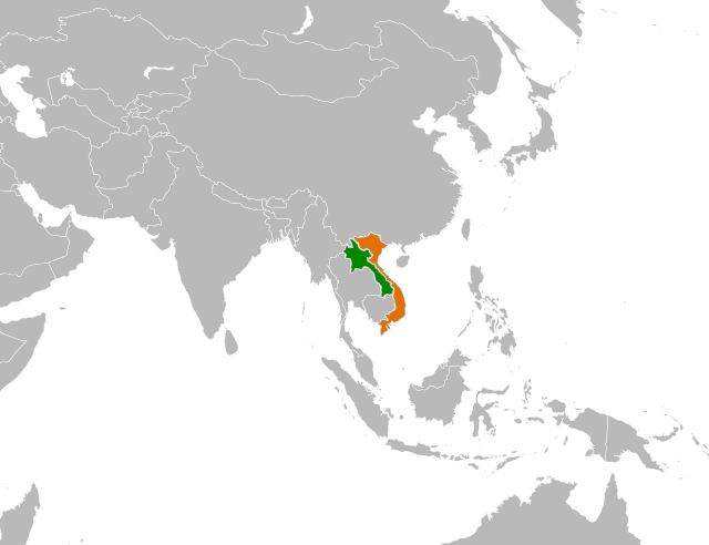 Locator map showing Laos and Vietnam.